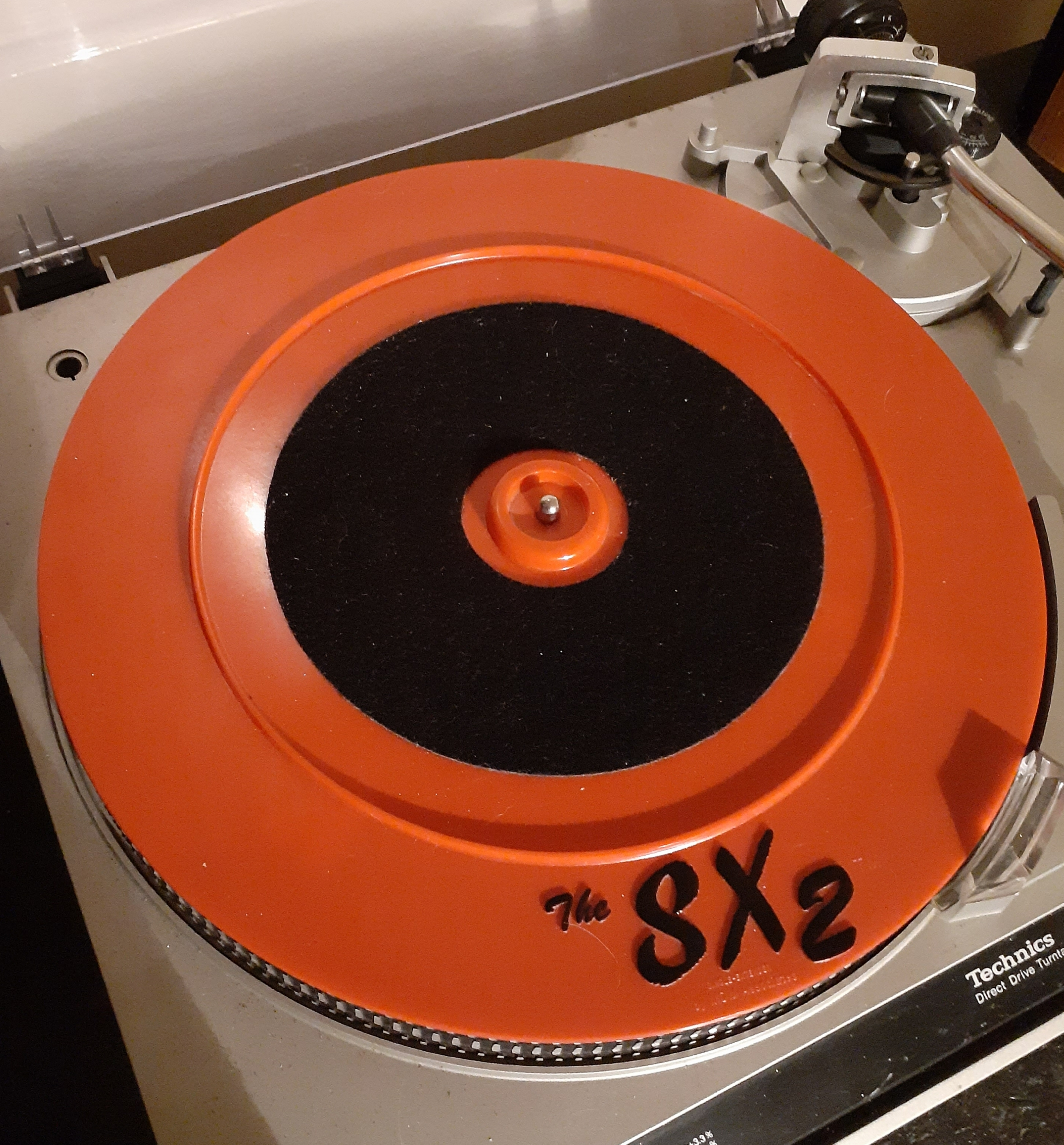 "SX2" adapter for playing 7" diameter 45 rpm phonograph records on slender-spindle 12" diameter turntables